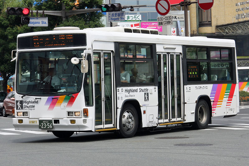 Kawanakajima Bus's route bus (Car No.42356 / Isuzu Cubic LT KC-LT333J / Isuzu body) at Nagano Station Zenkoji Exit, Nagano, Nagano, Japan.